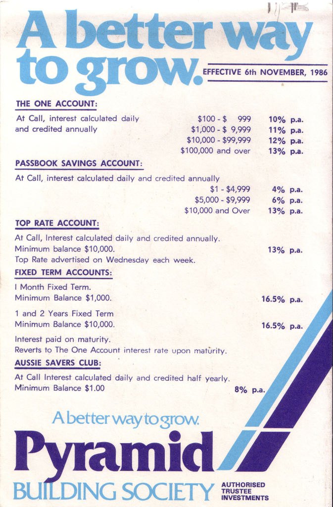 Pyramid Building Society flyer from November 6, 1986 listing their interest rates for various savings and investment accounts